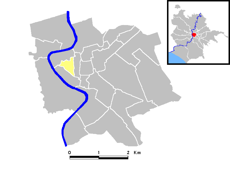 Locator maps of Rome (rioni)